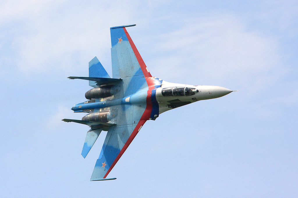 Falcons of Russia aerobatic team from Lipetsk Air Base